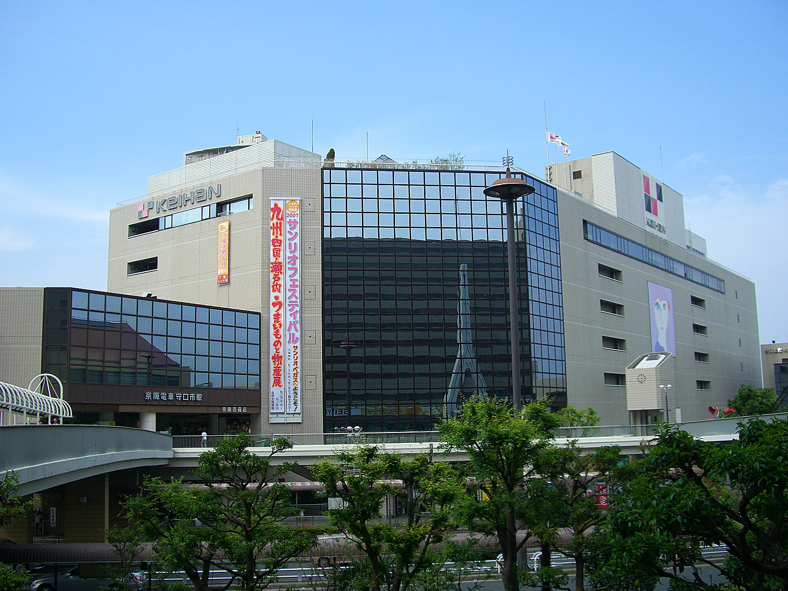 Keihan Department Store Moriguchi Building & Keihan Railway Moriguchishi Station East Gate